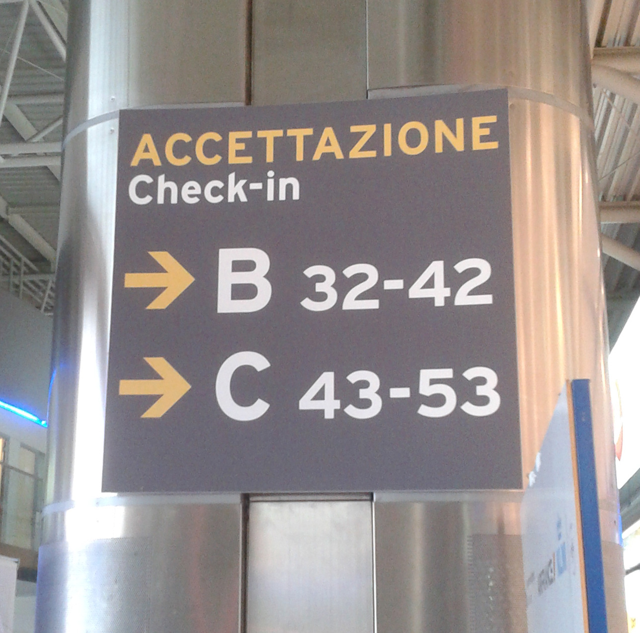 Bilingual signal in Italian (accettazione) and English (check-in), Marconi Airport, Bologna, Italy